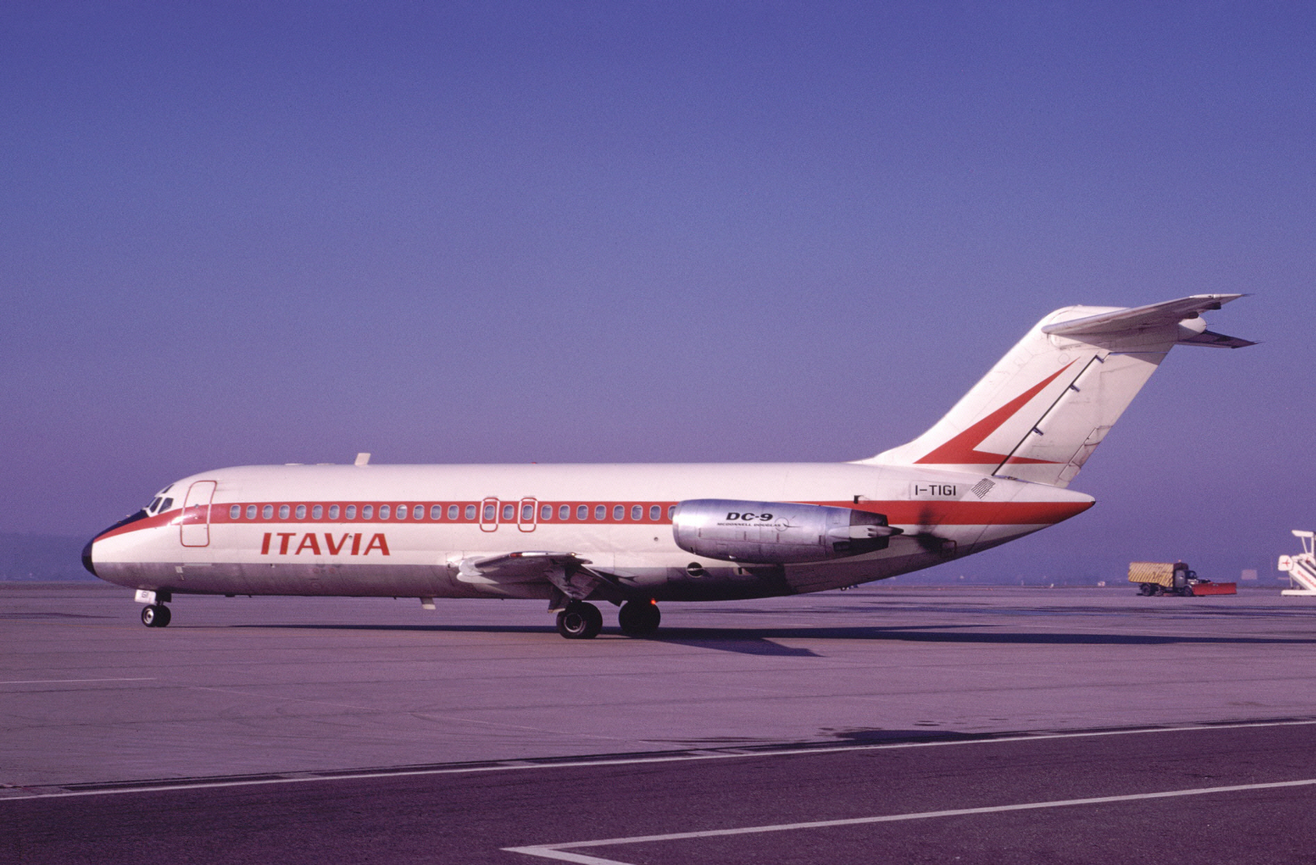 Photograph of I-TIGI DC9 downed on Ustica on june 27 1980. Photo taken in Basilea, November 1972.